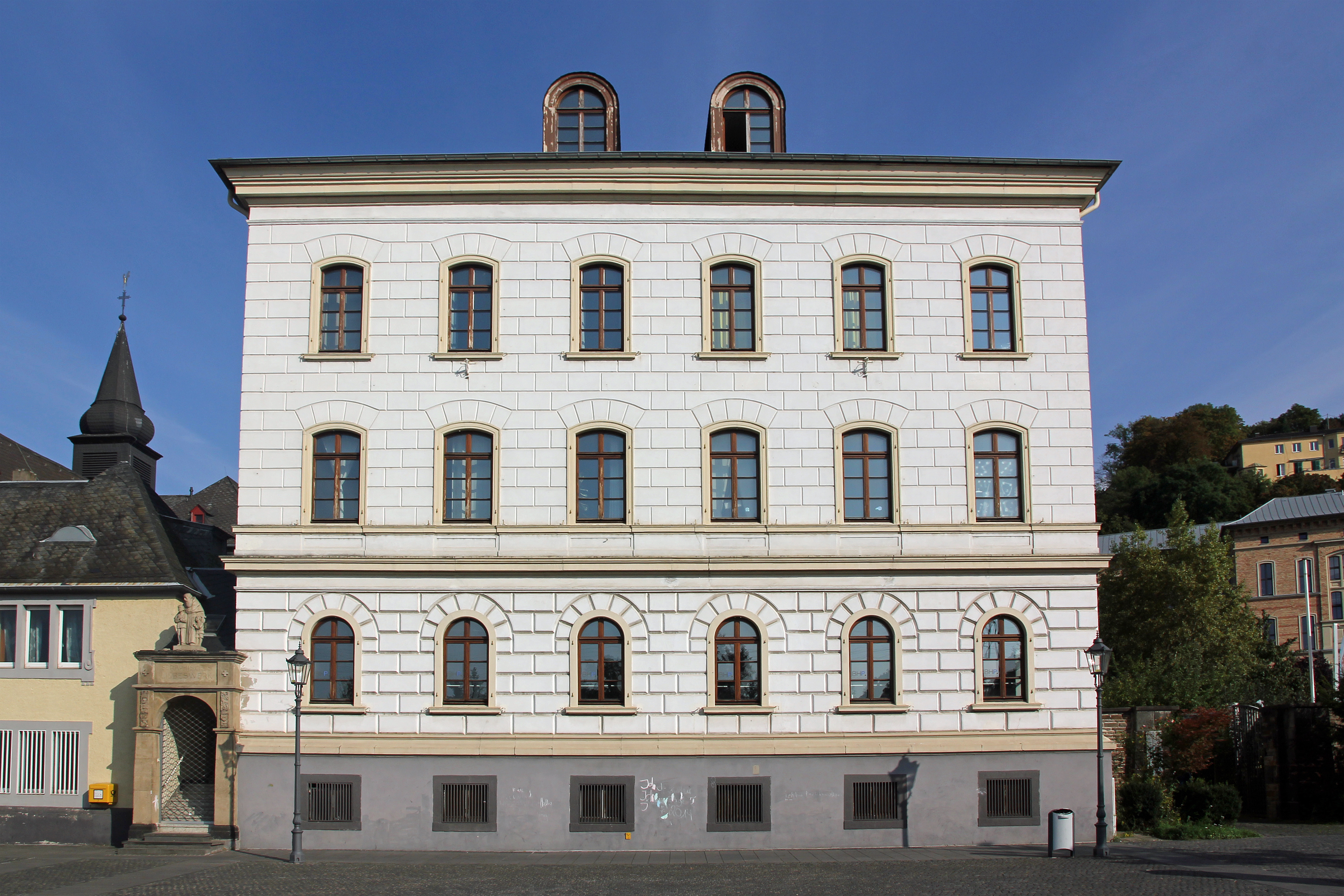 Theatre Konradhaus in Koblenz